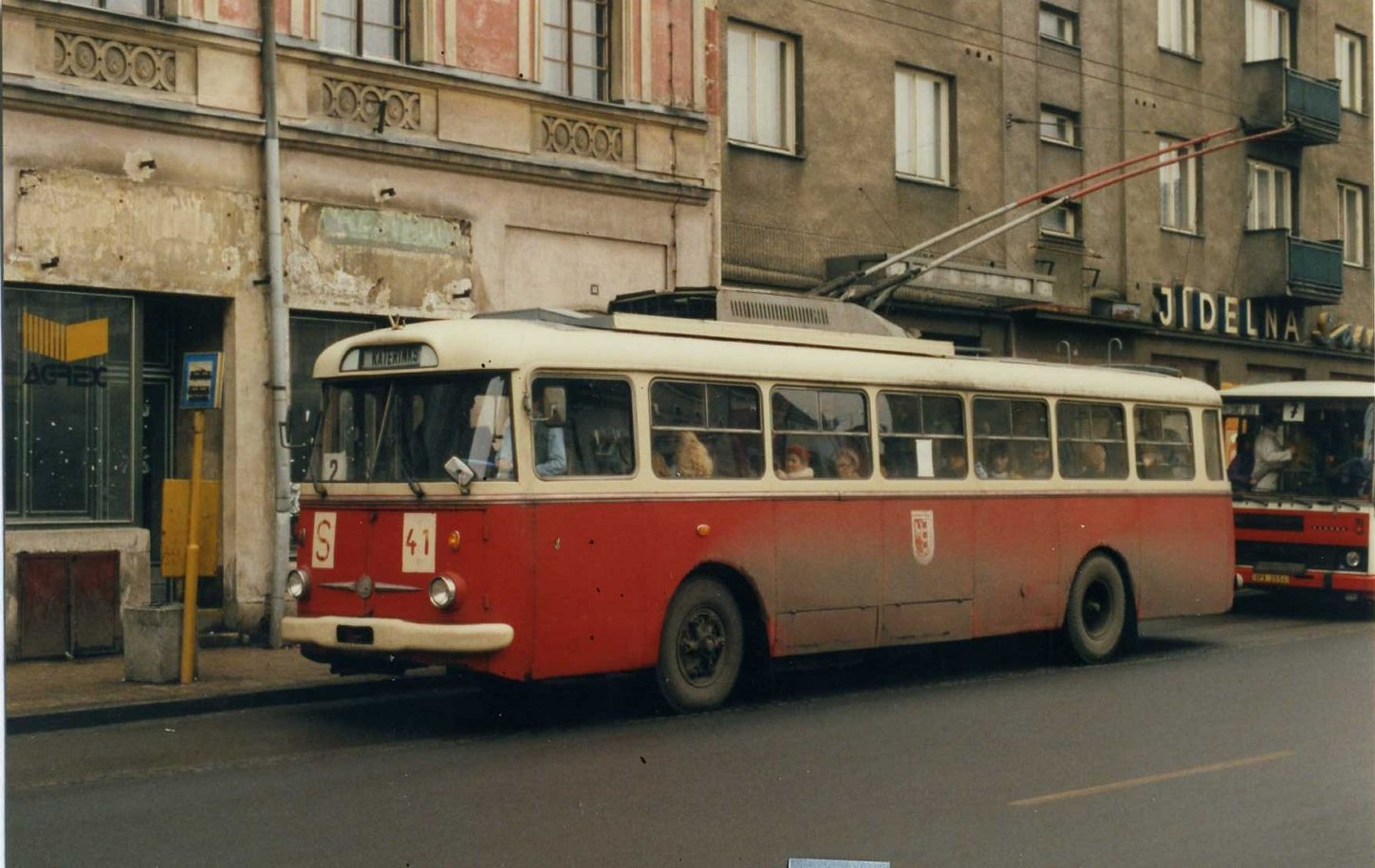 Škoda 9Tr trolleybus in Opava, Czech Republic, 1992